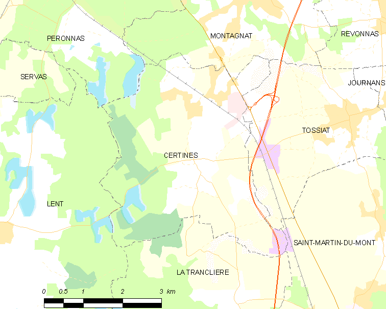 Map of French commune: Certines Map commune FR insee code 01069.png